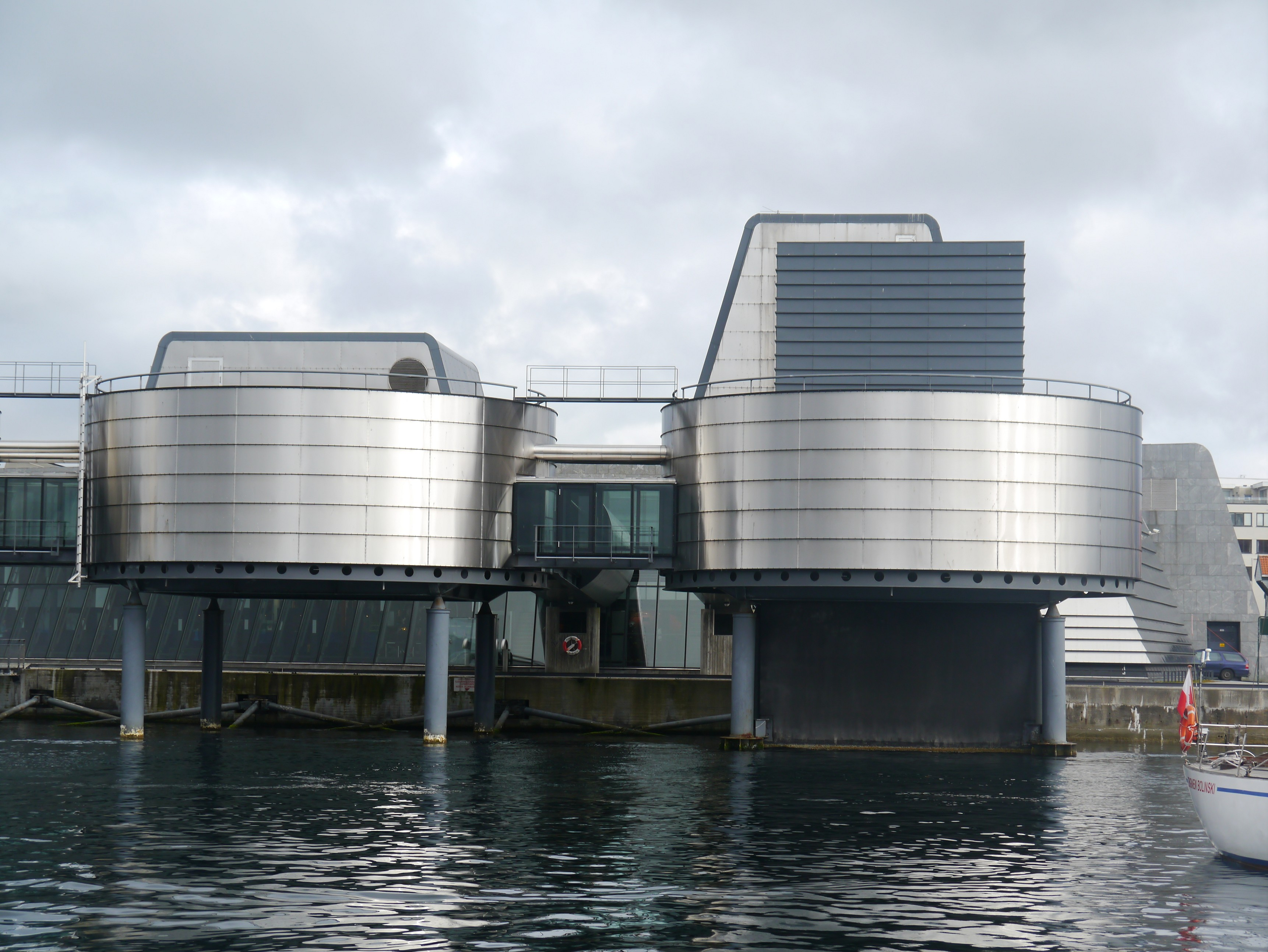 Norwegian Petroleum Museum, Stavanger, Rogaland County, Southwestern Norway